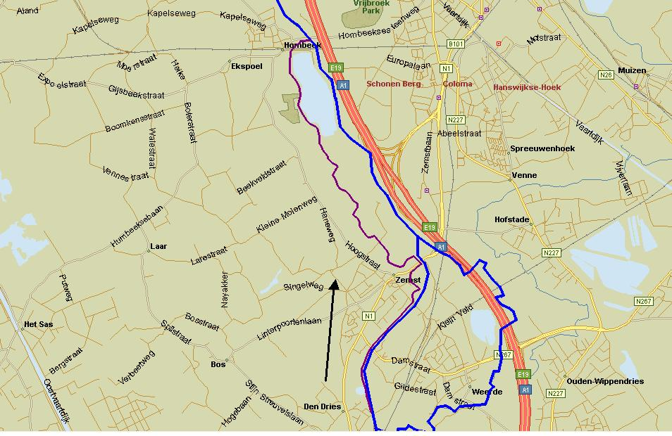 The Leibeek (brook) in purple and the Zenne (river) in blue